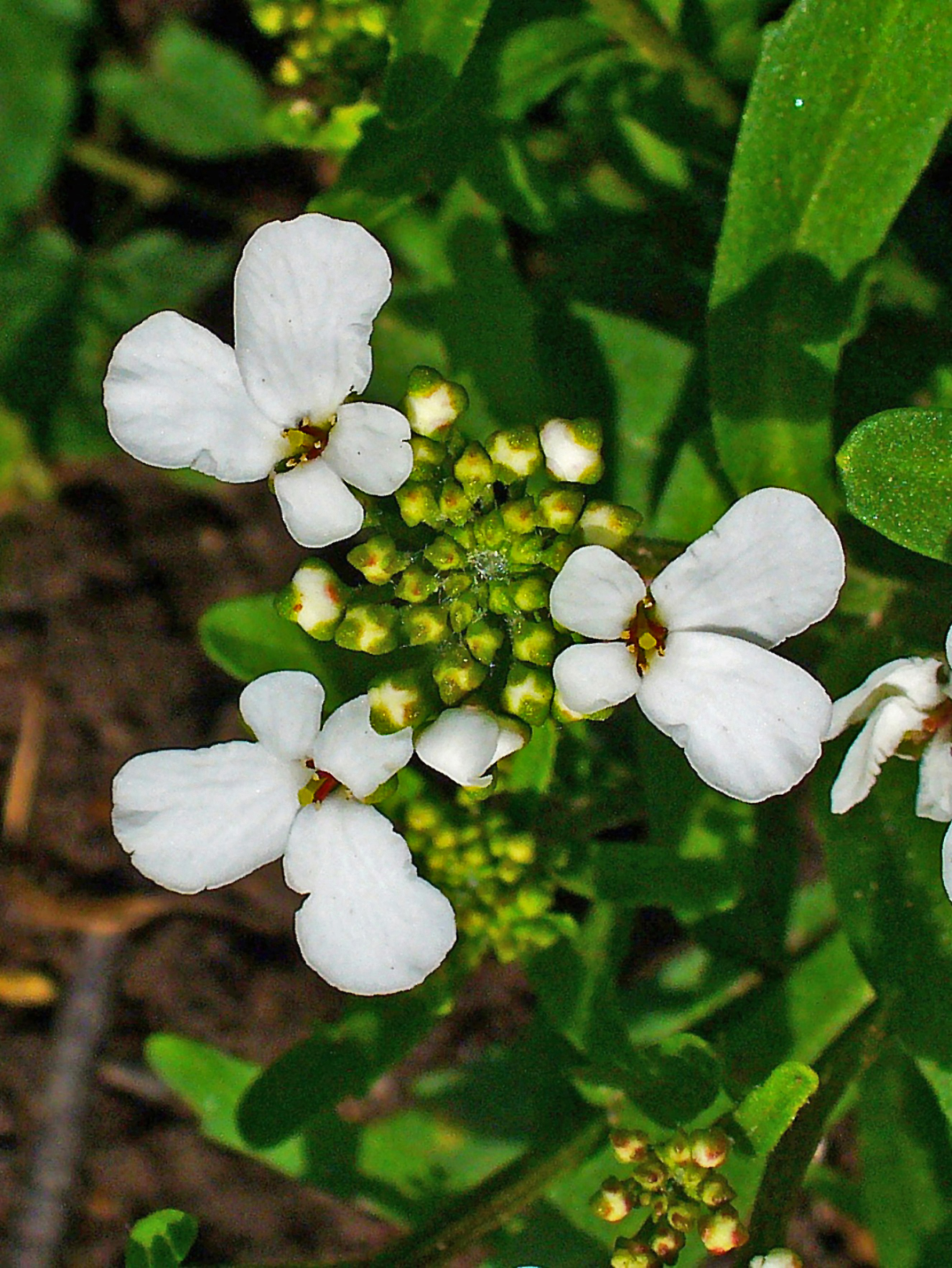 Iberis amara, Brassicaceae, Bitter Candytuft, inflorescence. The dried, ripe seeds are used in homeopathy as remedy: Iberis amara (Iber.)